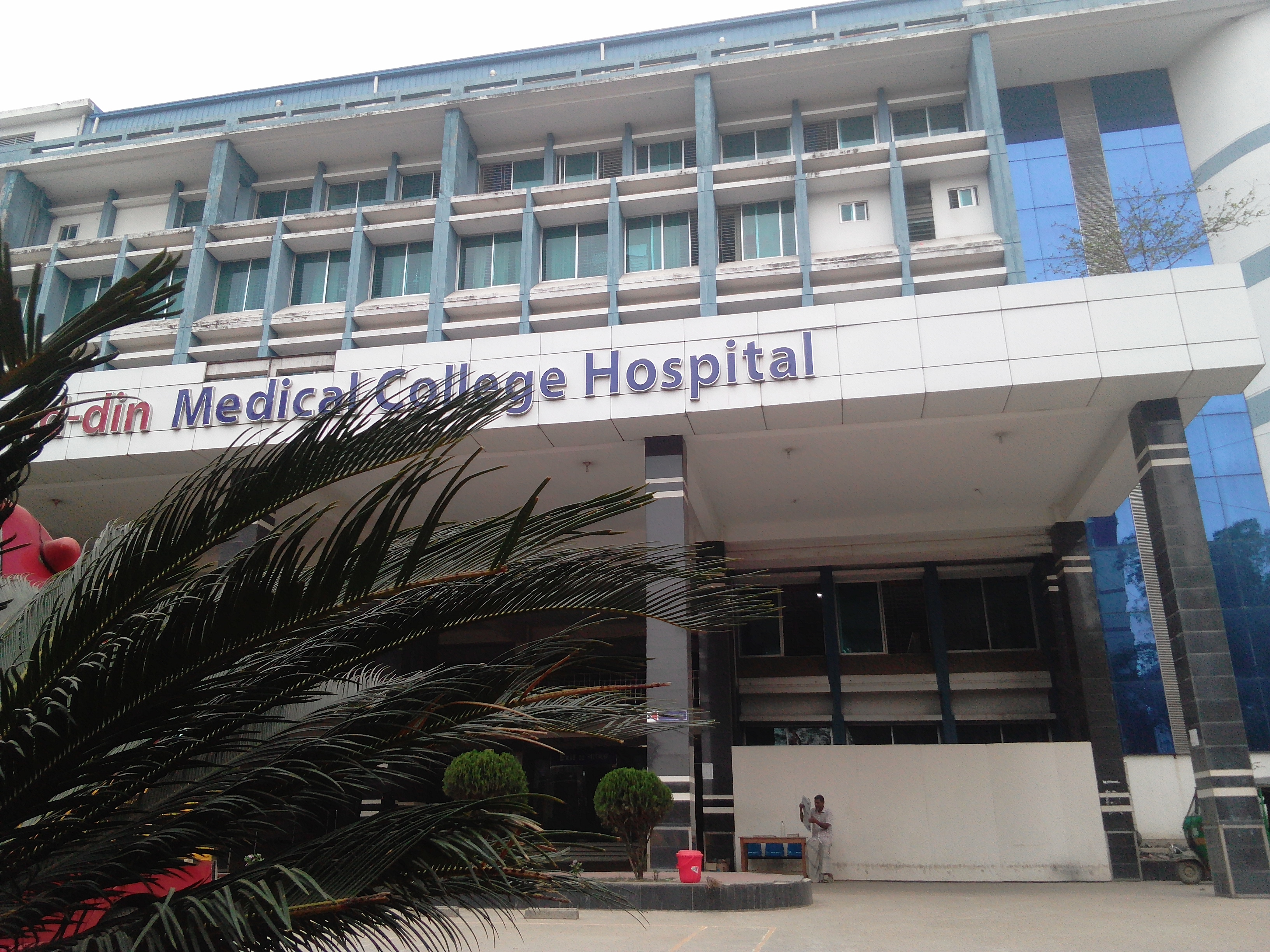 The front view of Bashundhara Ad-din Medical College Hospital